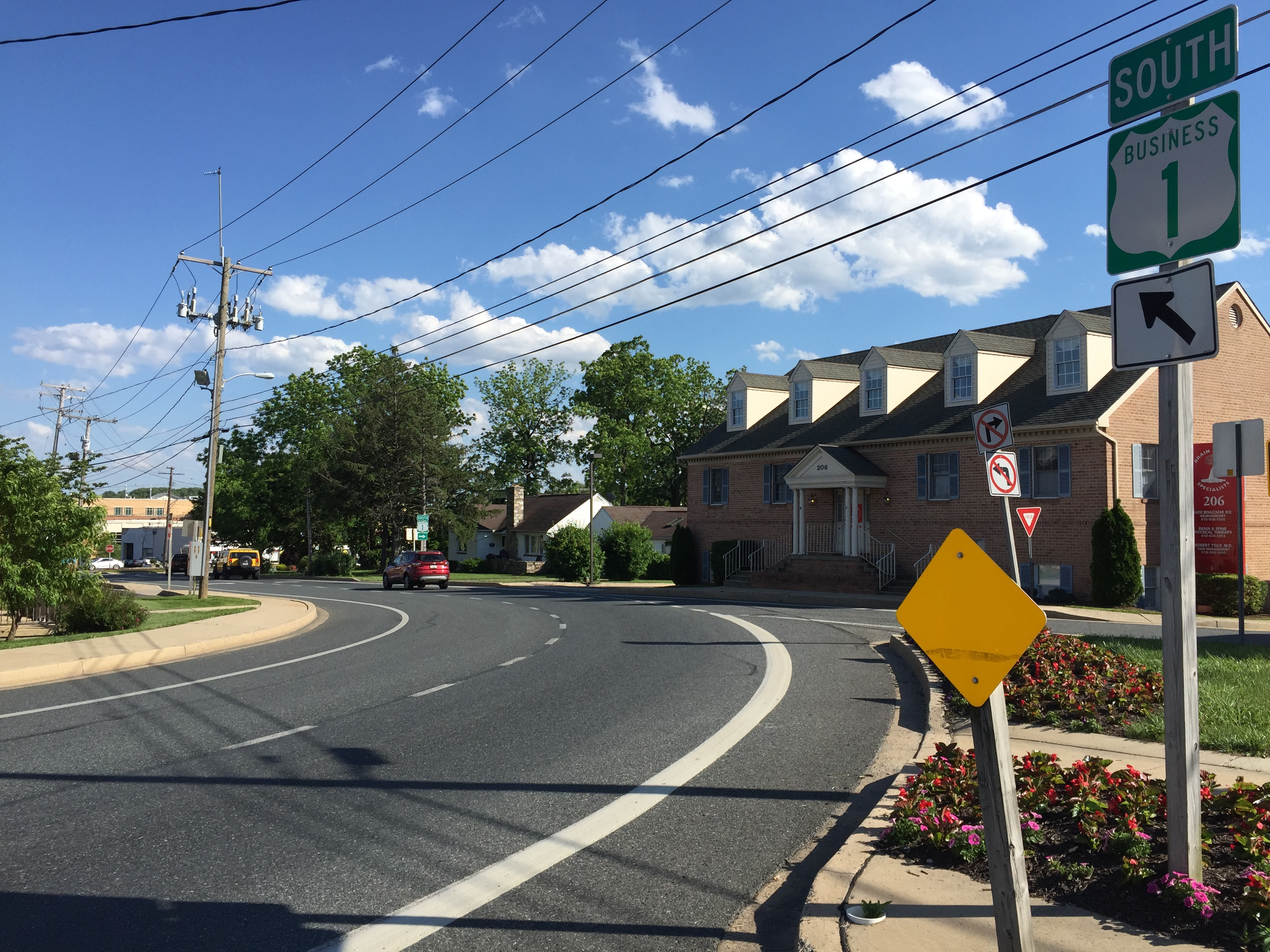 View west along Maryland State Route 922 (Churchville Road) at Hays Street in Bel Air, Harford County, Maryland